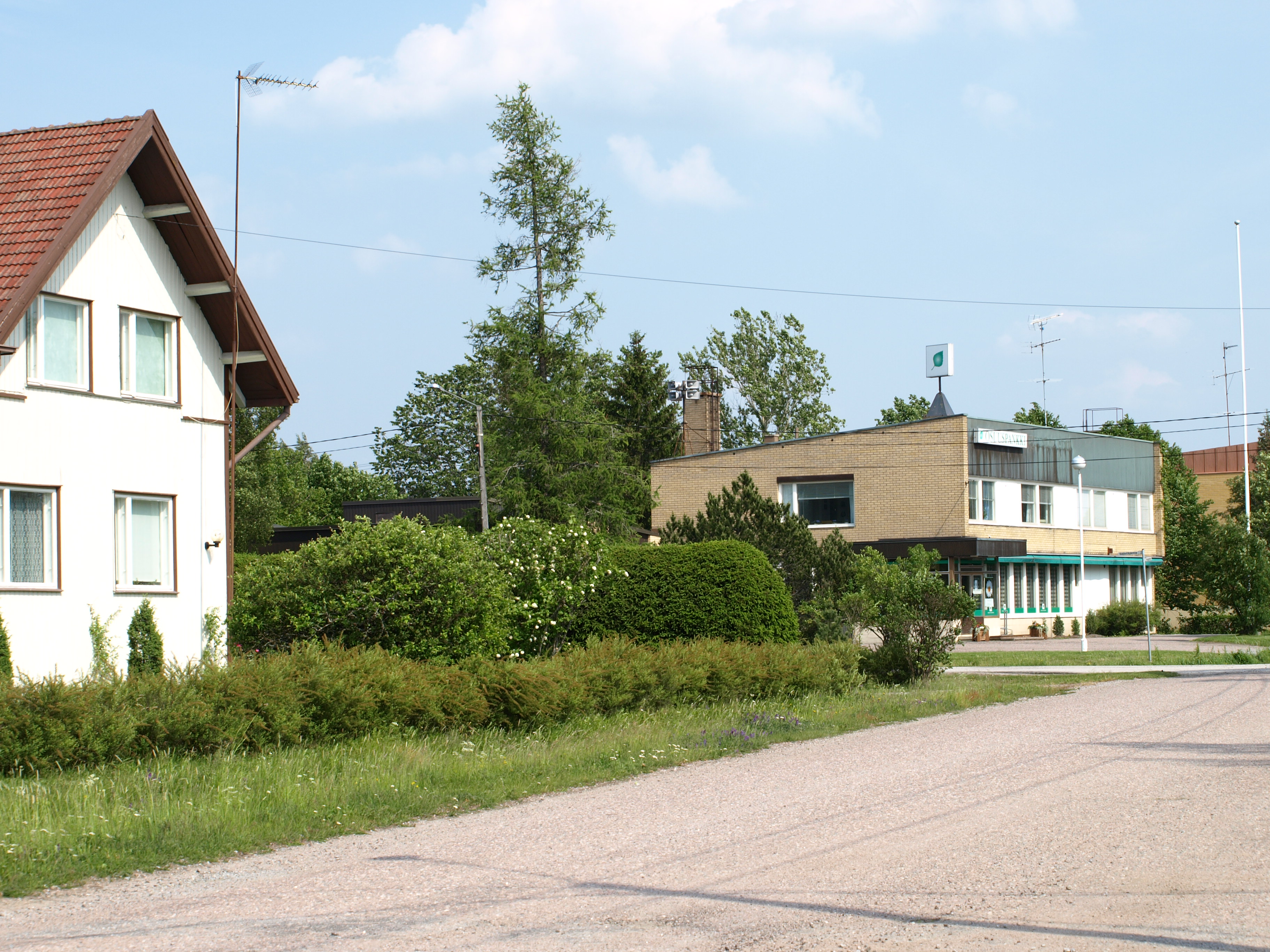 The Center of Vaskio in Halikko, Finland.